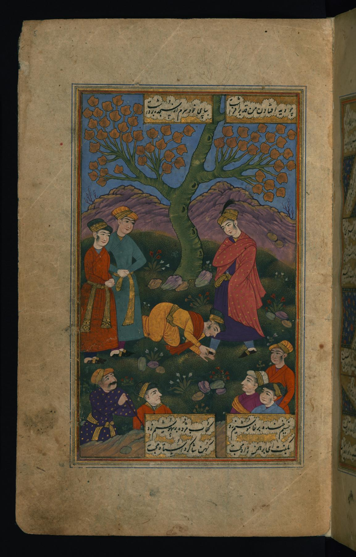 On this folio from Walters manuscript W.649 the author, Naw'i Khabushani, prostrates himself before Prince Daniyal, son of Emperor Akbar, to whom he dedicated this poem.